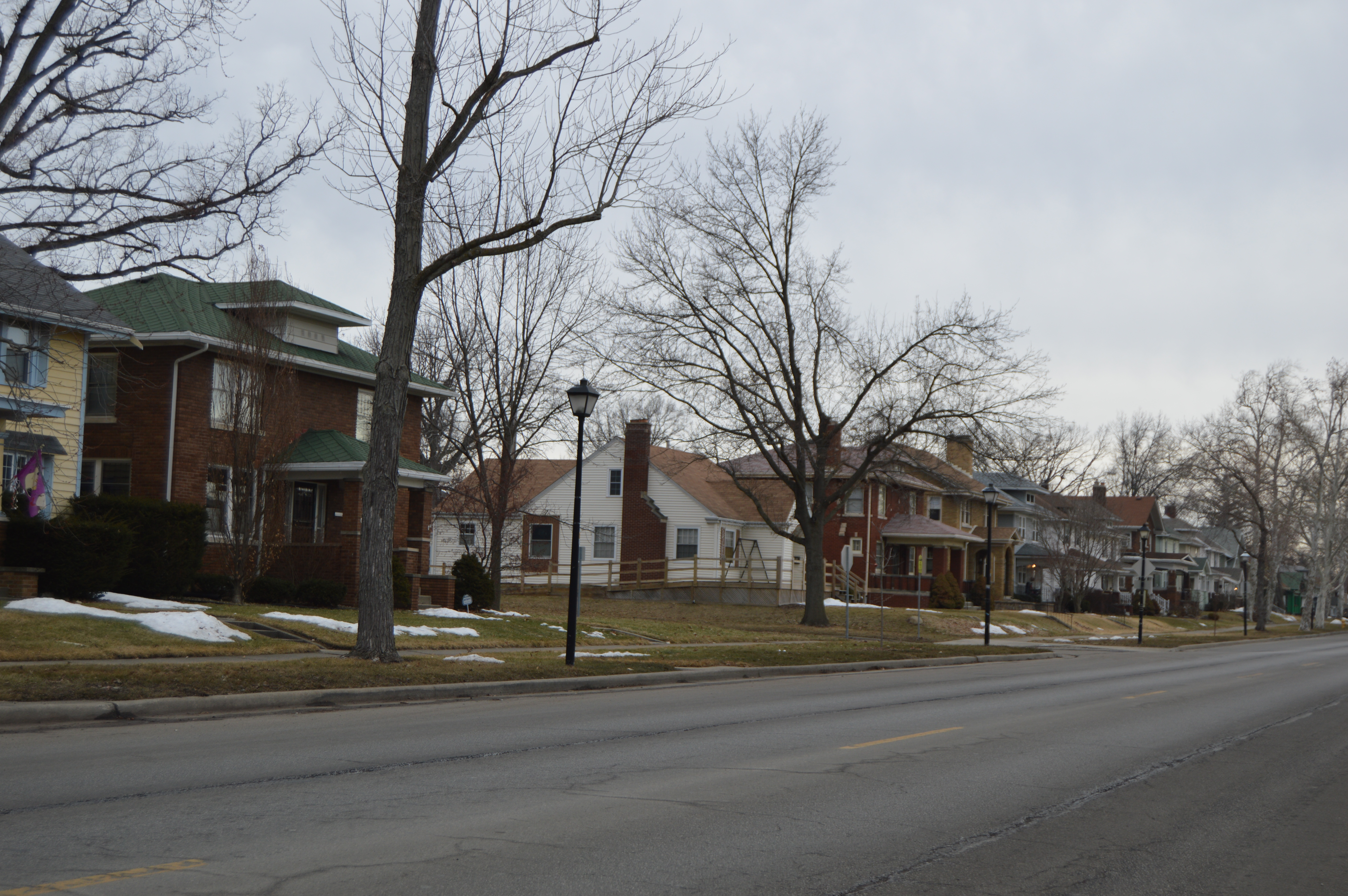 Houses on the western side of the 2400 and 2500 blocks of N. Anthony Boulevard in Fort Wayne, Indiana, United States. This neighborhood is part of the Foster Park Neighborhood Historic District, a historic district that is listed on the National Register of Historic Places.